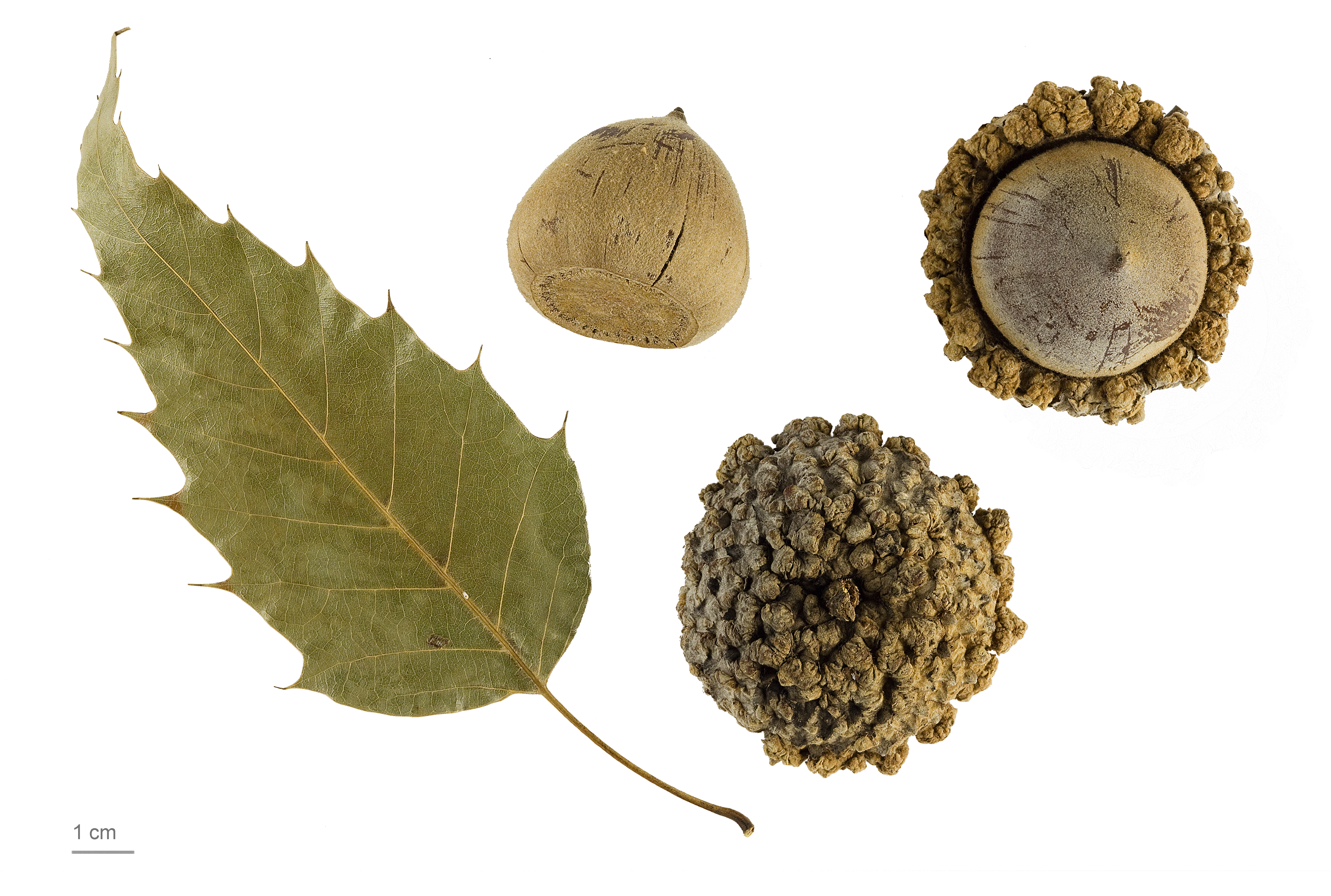 Quercus skinneri , fruits and seeds